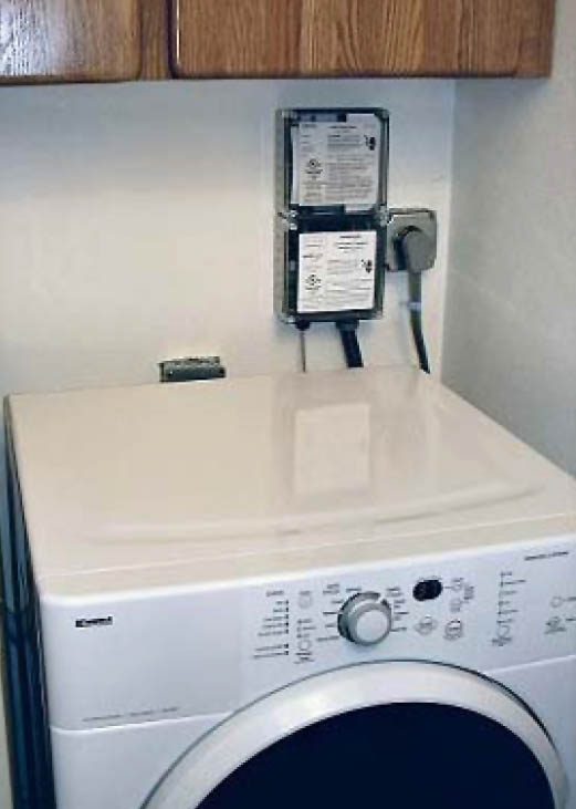 A clothes dryer connected to a load control "smart" switch used in a smart grid.